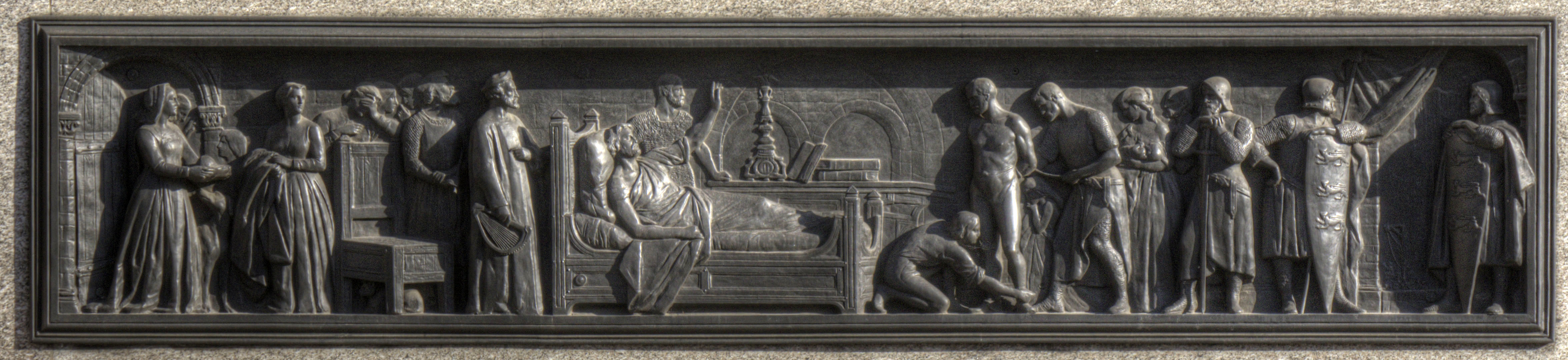 West side panel on the plinth of the statue of Richard I, Westminster, depicting King Richard I on his deathbed. Apparently ordering the liberation of a prisoner, as an act of charity to speed the transition of his soul through Purgatory.